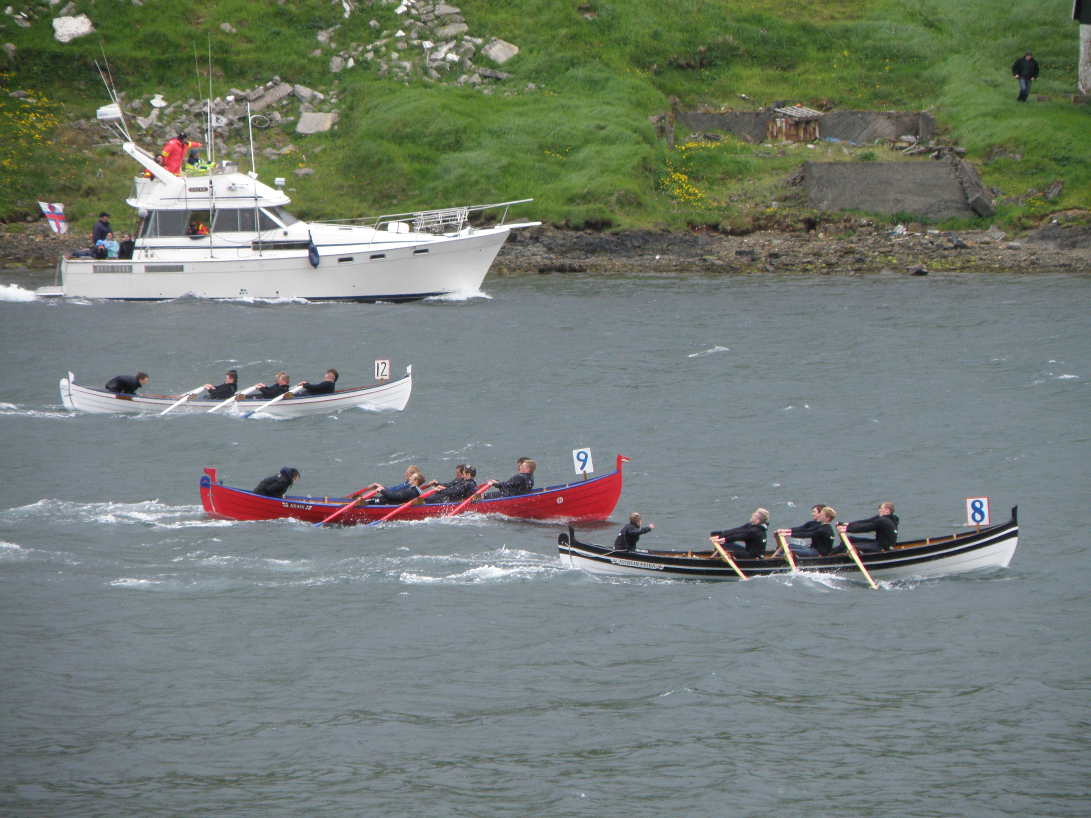 Rowing competitions are held around the islands in the Faroe Islands each summer, starting in Klaksvík in the end of May or beginning of June and ending with the national holiday Ólavsøka in Tórshavn on 28 July (Ólavsøkuaftan). This photo was taken at Jóansøka, which is the local festival in Suðuroy, it is held every second year in Vágur and every second year in Tvøroyri. This is in Vágur on 26 June 2010. Jóansøka is mostly held in the last weekend of June. The boats are traditional wooden Faroese rowboats. There can be 6, 8 or 10 rowers in the categories 5-mannafør boys, 5-mannafør girls, 5-mannafør women, 6-mannafør women, 6-mannafør men, 8-mannafør men, 10-mannafør men. Children are also rowing in their own competitions; they row in the smallest boats the so-called 5-mannafør (6 persons rowing and one steering). Sometimes there are also competitions for old-boys and old-girls. In the summer of 2010 there were seven village festivals with FM rowing competitions. Information about these festivals is to find on the Faroe Islands Rowing Association's website: Føroyskt: Kappróður á Jóansøku 2010 í Vági, 5-mannafør dreingir. Royndin Fríða úr Vági vann henda róðurin, tað er hvíti báturin, sum er fremstur (til høgru) á hesi myndini. Myndin varð tikin 26. juni 2010 í Vági. Jóansøka er annað hvørt ár í Vági og annað hvørt ár á Tvøroyri.